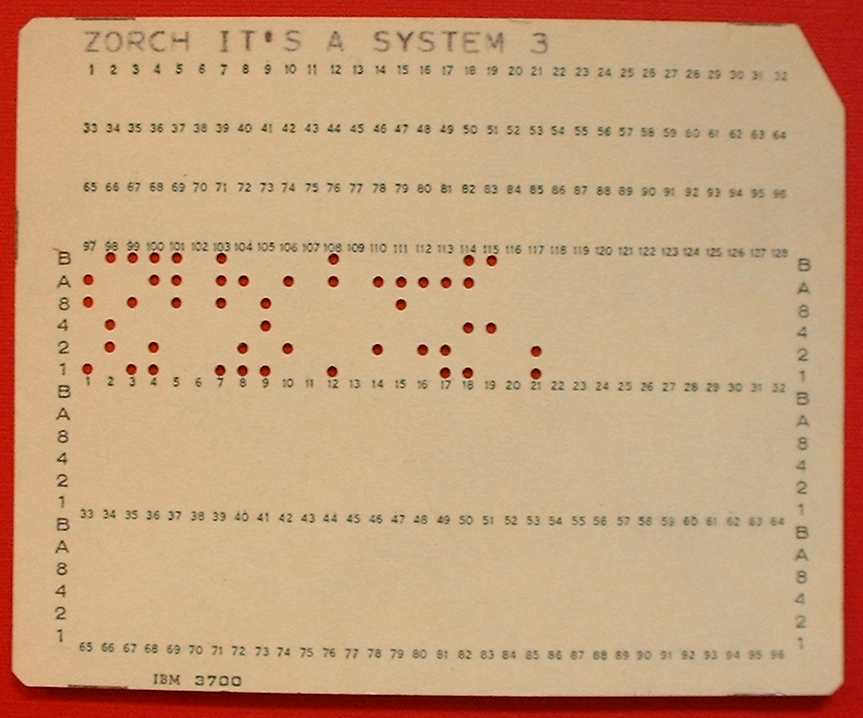 IBM System/3 punched card. This is a digital photograph Arnold Reinhold took on August 11, 2004 of an IBM System 3 punch card. Reinhold punched the card at an IBM sales demonstration that he attended in the early 1970s. The card is 3-1/4 inch wide by 2-5/8 inch high by 0.007 inch thick. The card itself is utiltiarian in purpose and was created before 1975 with no copyright notice. The text punched on the card was written by Arnold Reinhold.